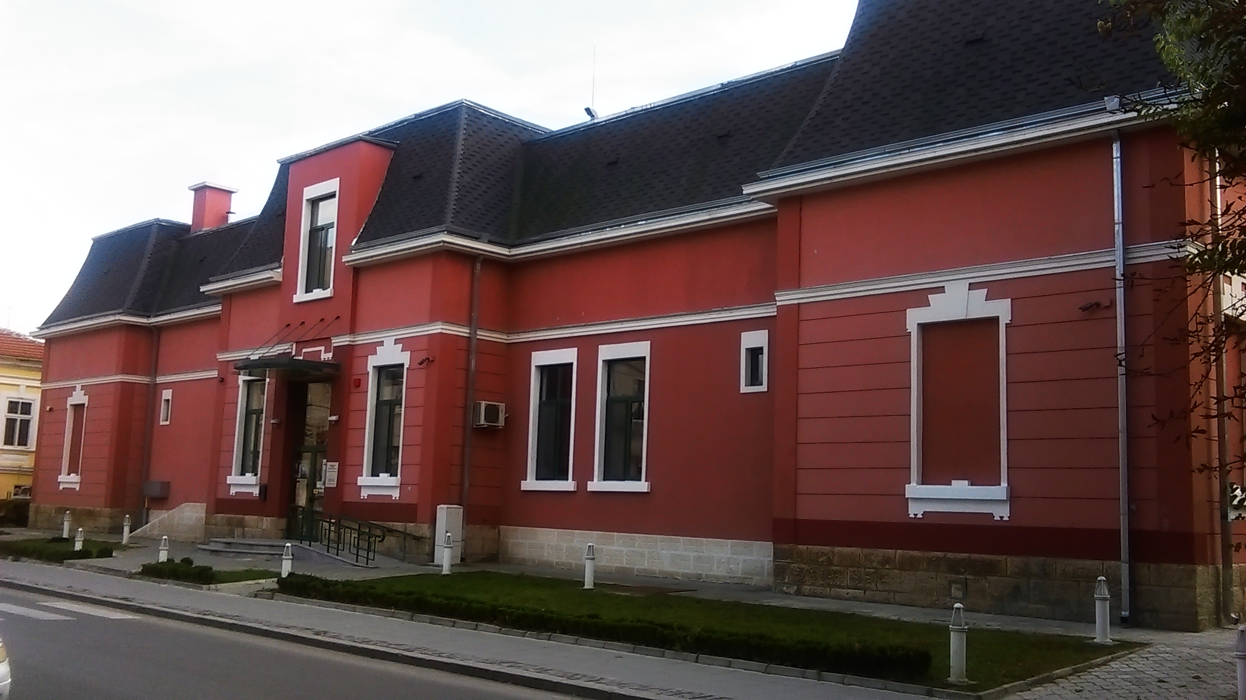 The Art gallery in Razgrad